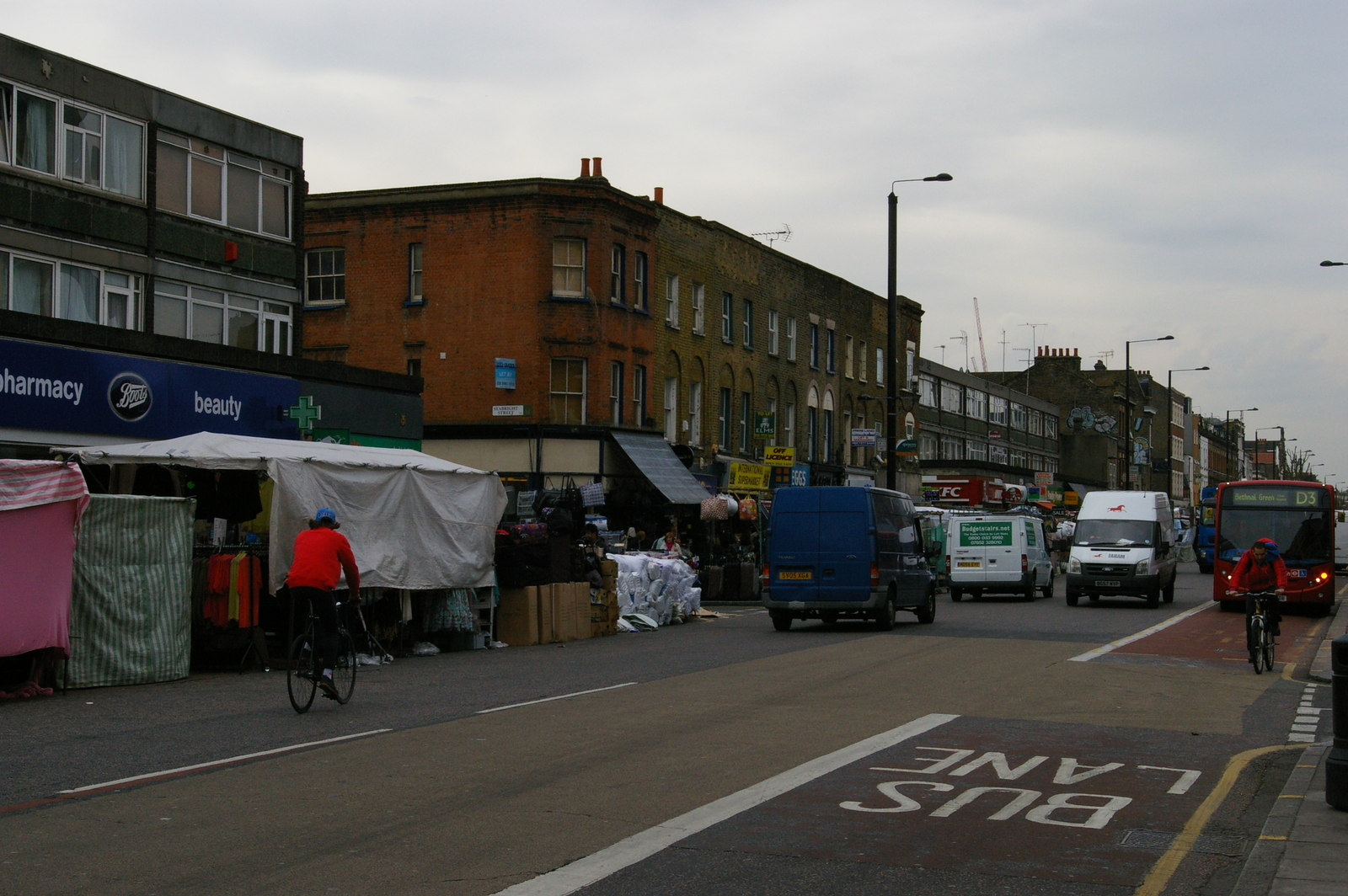 Market, Bethnal Green Road, E2. TQ3482 :: Market, Bethnal Green Road, E2, near to Bethnal Green, Tower Hamlets, Great Britain